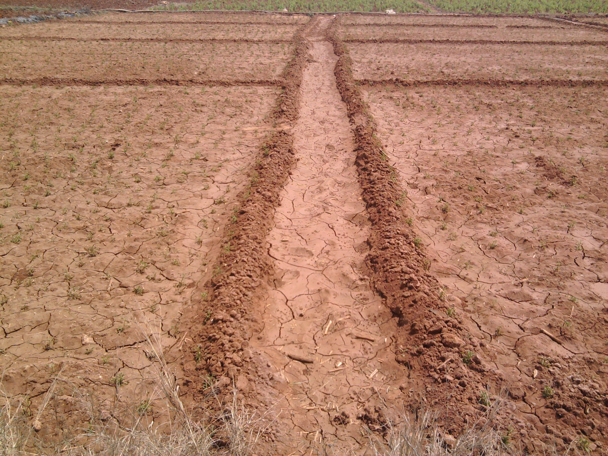 Water storage cells of Agriculture